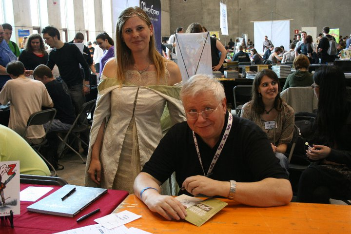 Russ Nicholson at a typical book signing session.